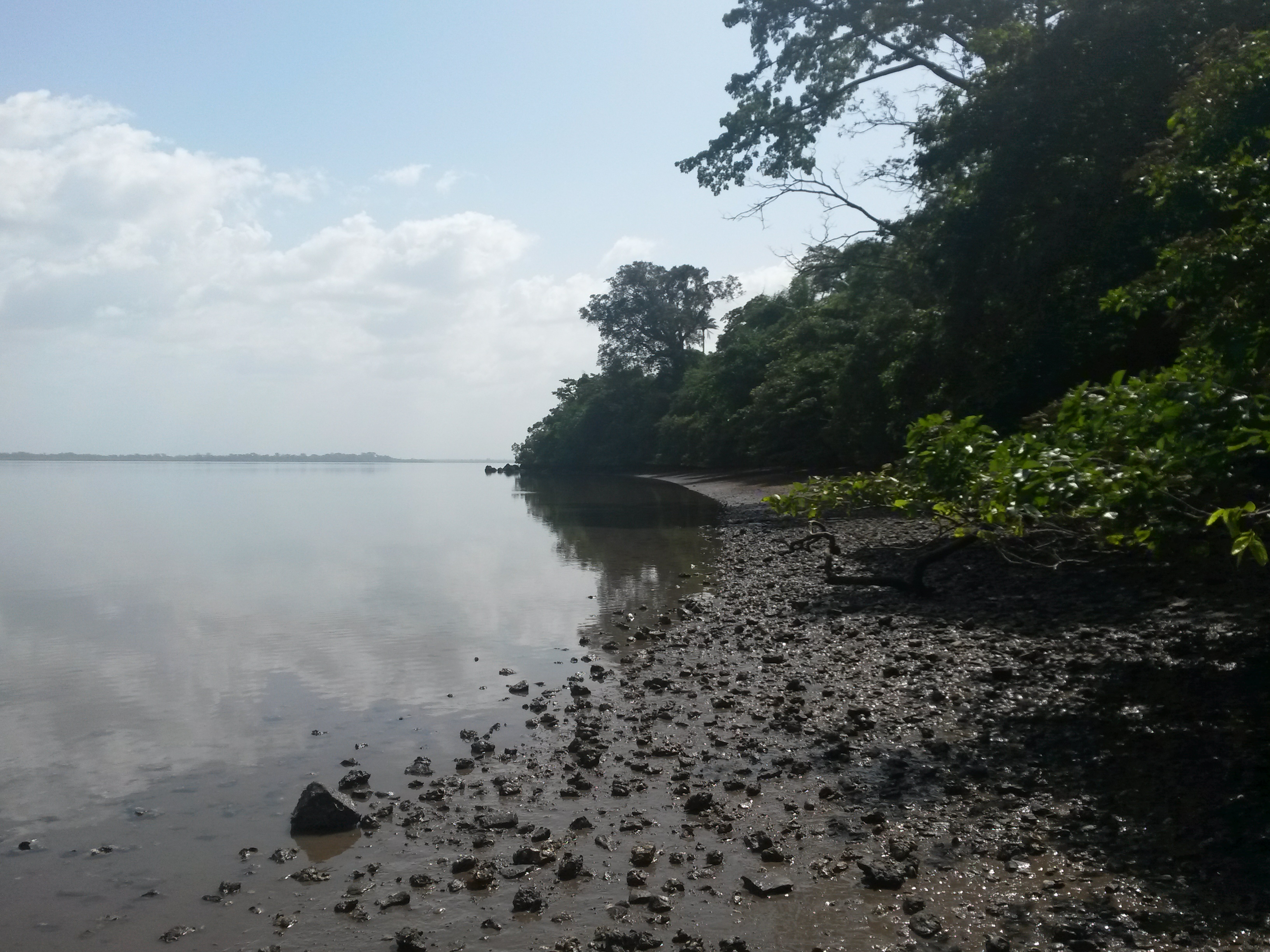 Bunce Island is an island in the Sierra Leone River situated in Freetown Harbour. The island measures houses a castle that was built by a British slave-trading company in c.1670. Tens of thousands of Africans were shipped from here to the North American colonies of South Carolina and Georgia to be forced into slavery, and are the ancestors of many African Americans of the United States.